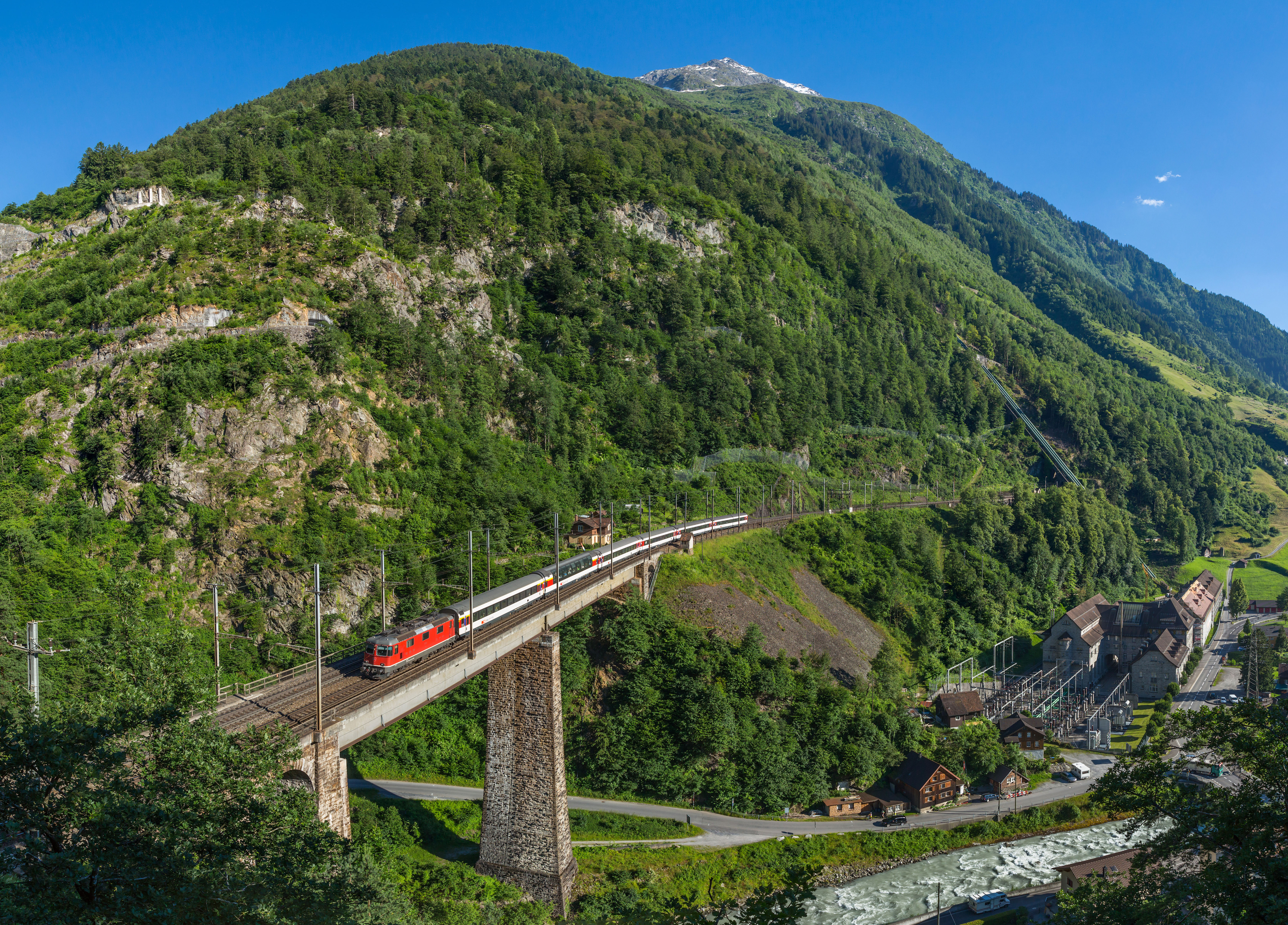 A northbound Gotthard Interregio hauled by an Re 420 is crossing the Chärstelenbach bridge near Amsteg, Switzerland. SBB hyrdoelectric power station Amsteg on the right. Panormana stitched from six photos.